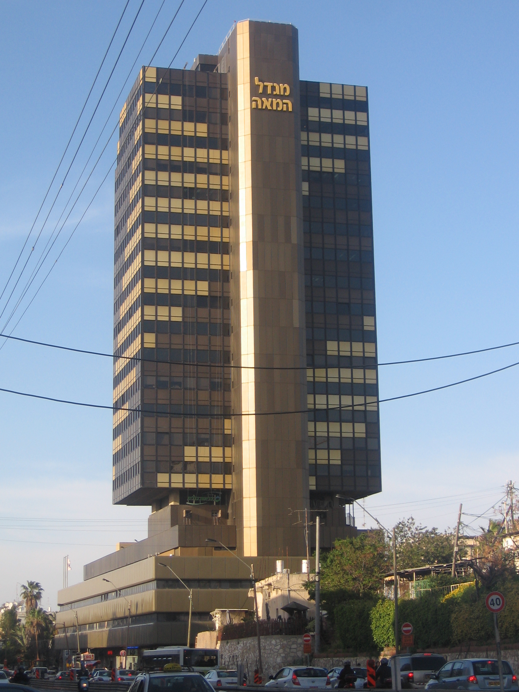 Hame'ah tower in Tel Aviv.